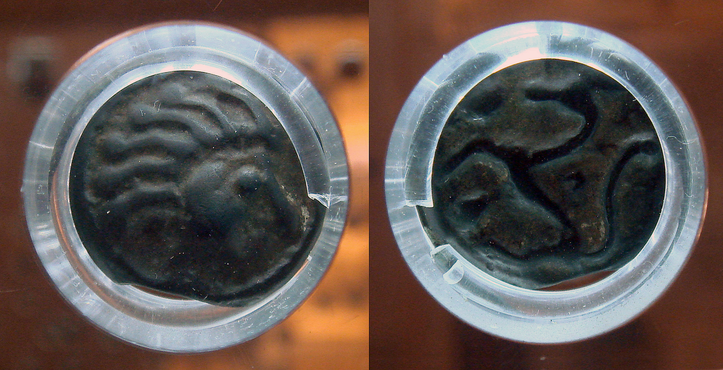 Senones_coin_2nd half 1st_century_BCE.